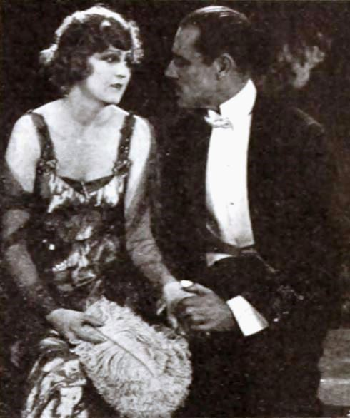 Still from the American drama film The Best of Luck (1920) with Kathryn Adams and Jack Holt, on page 11 of the December 20, 1919 Exhibitors Herald.